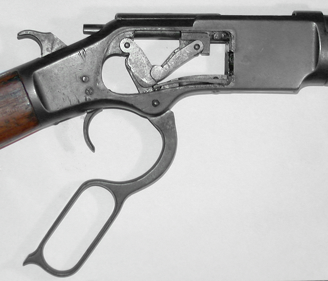 Winchester 73 open receiver, function